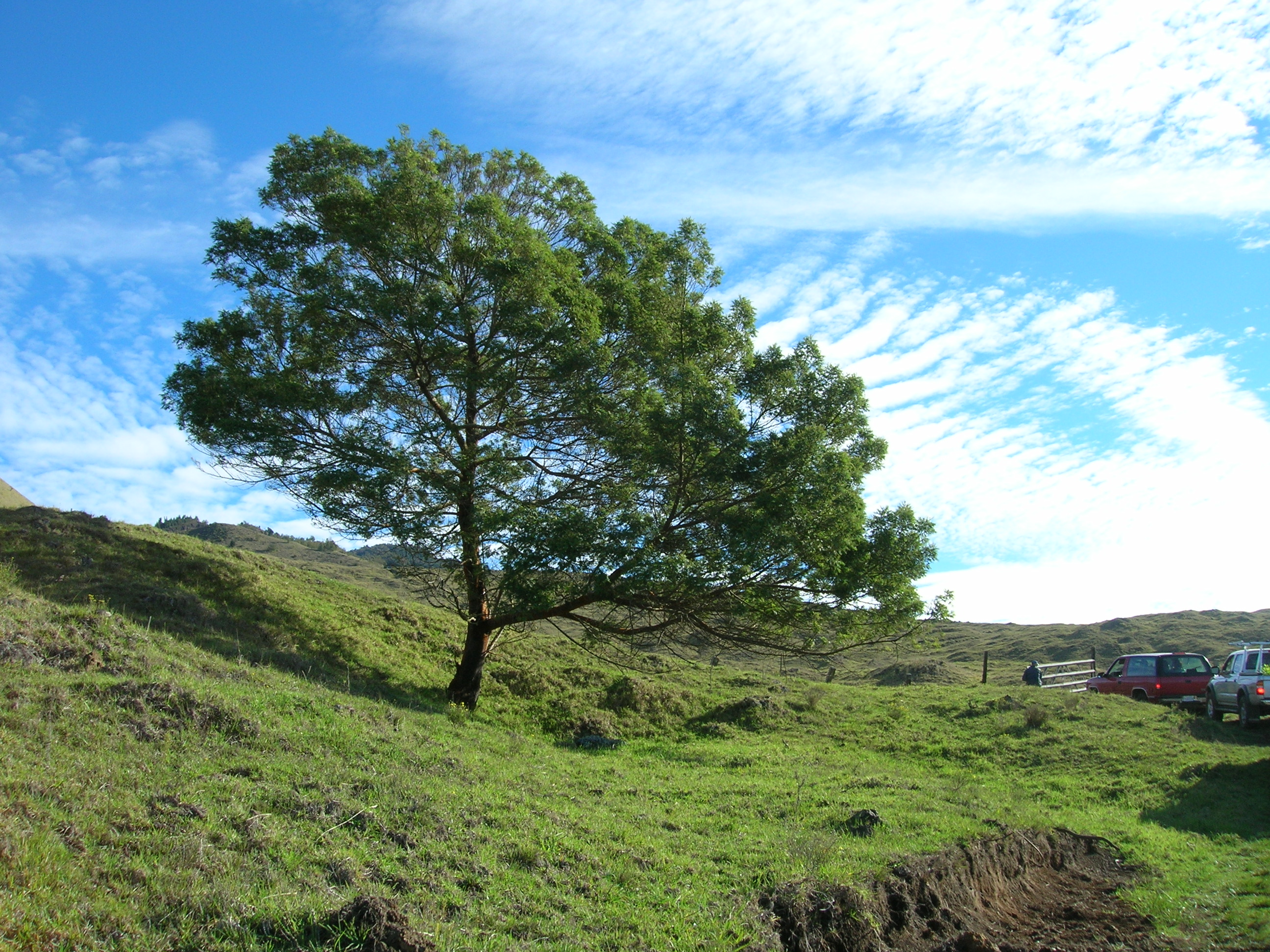 Acacia mearnsii (habit). Location: Maui, Auwahi